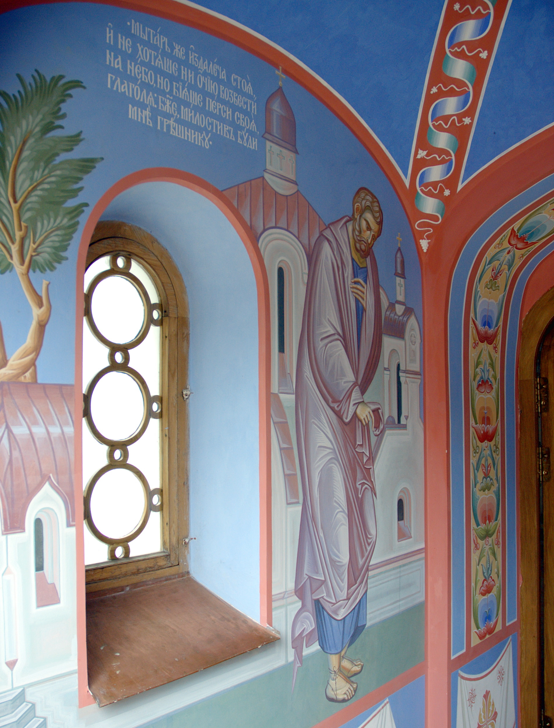 Valaam Monastery. Luke 10-13, orthodox church wall paintings (Luke, 10-13)